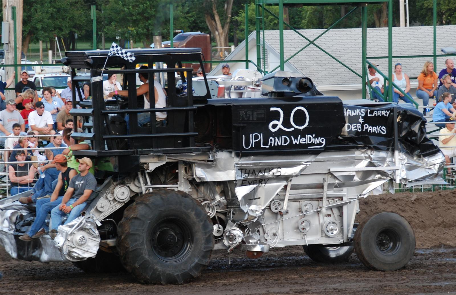 A contestant in a Combine Demolition Derby in Abilene, Kansas